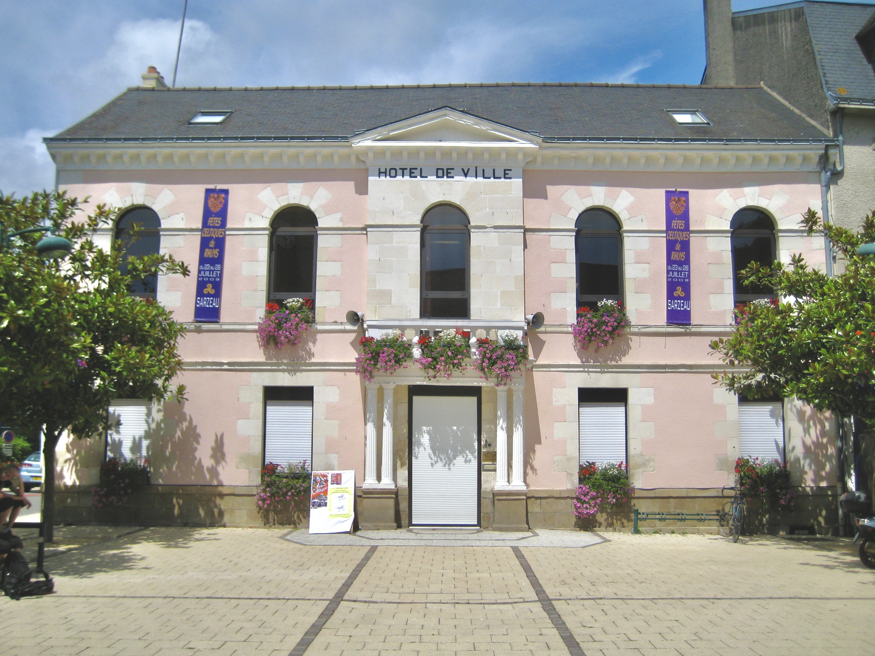 Town Hall of Sarzeau, Morbihan, France